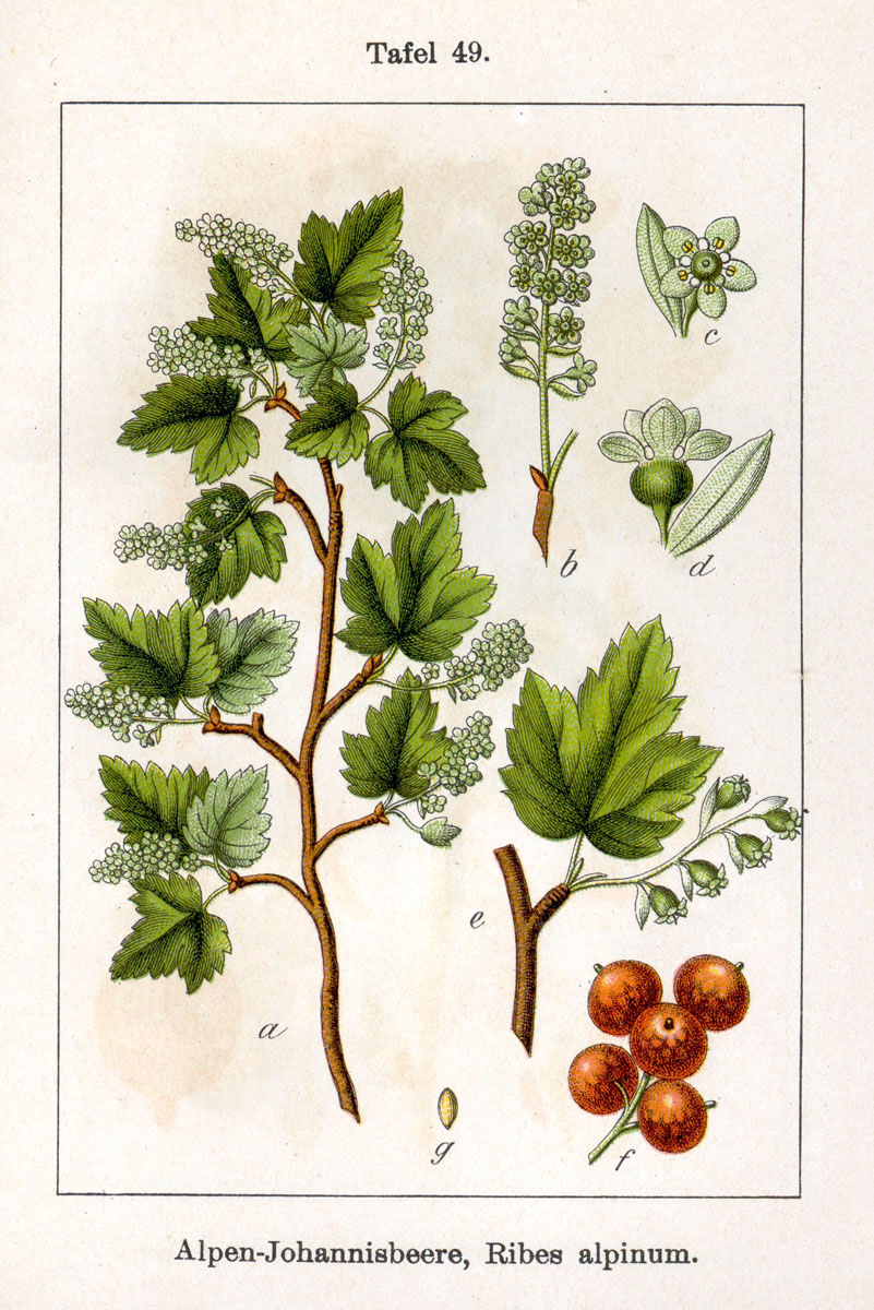 Ribes alpinum L. Original Description Alpen-Johannisbeere, Ribes alpinum